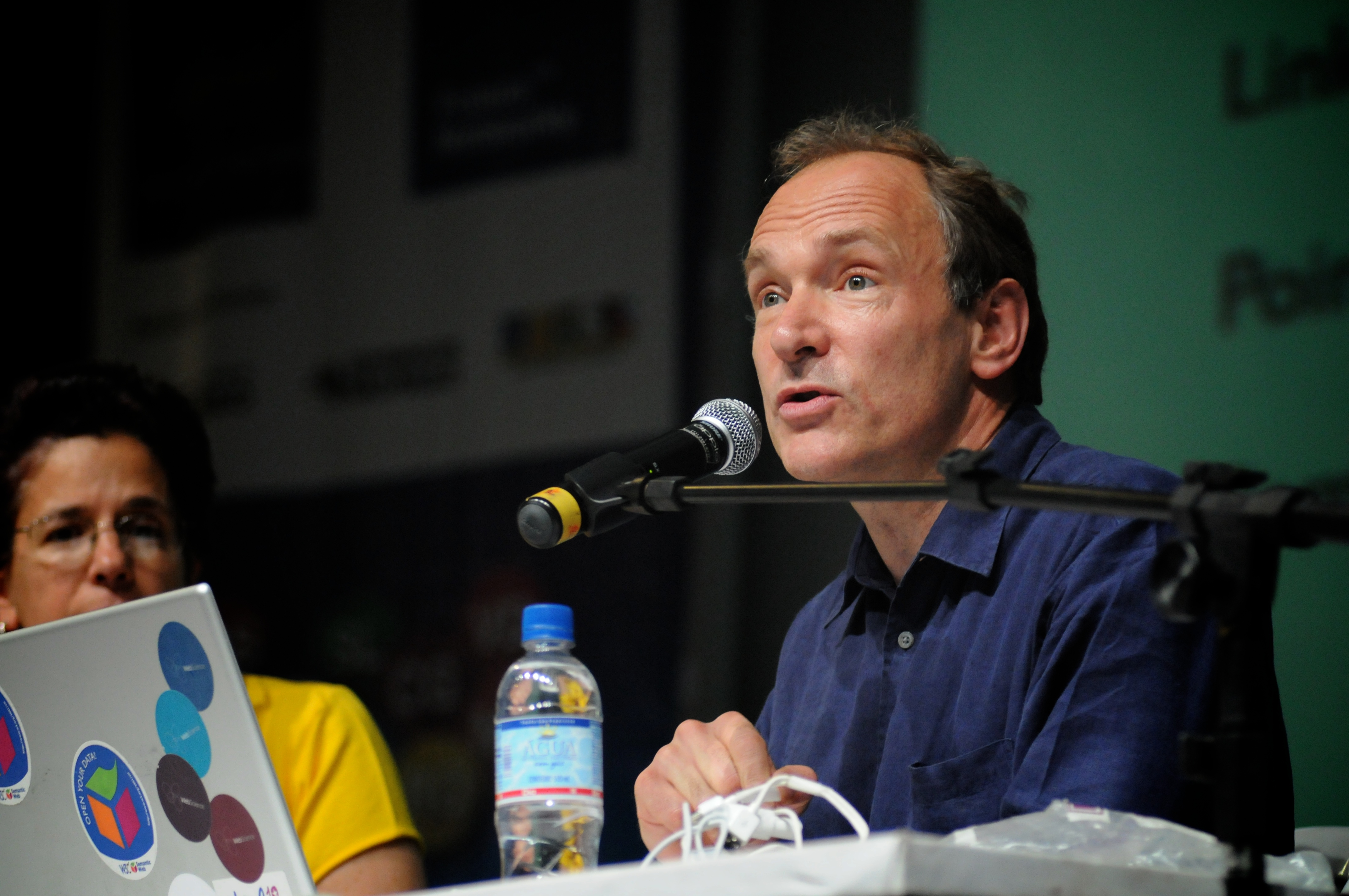 Tim Berners-Lee at Campus Party Brasil, 2009